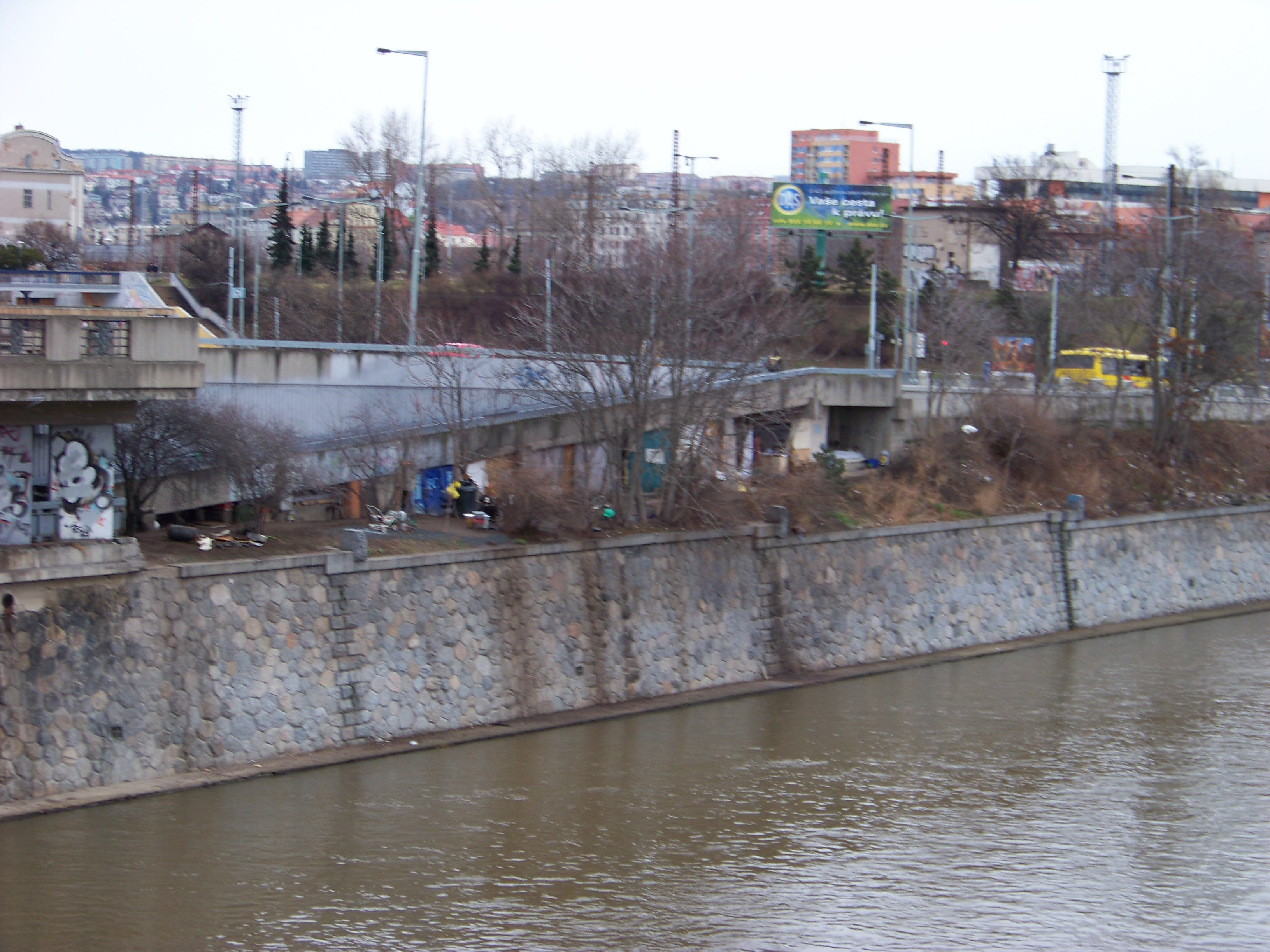 Prague-Holešovice, the Czech Republic. Bubenské nábřeží.